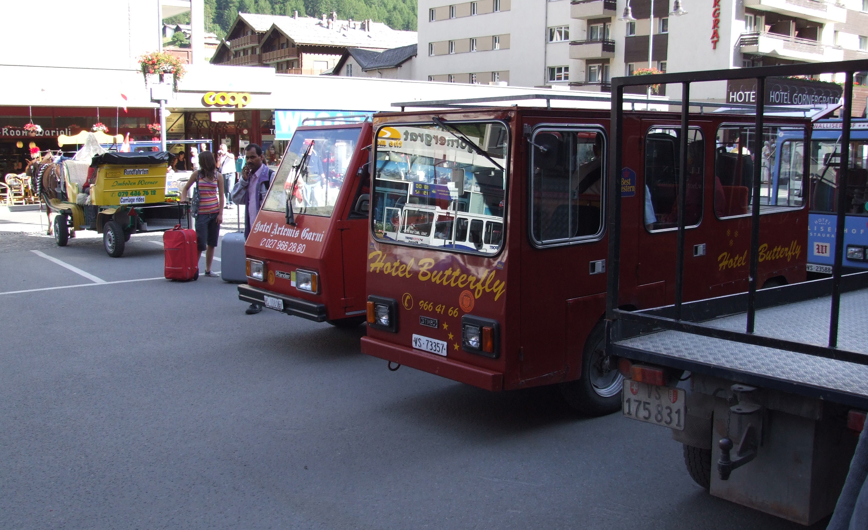 electric vehicles in Zermatt, Switzerland, left: Pfander, right: STIMBO